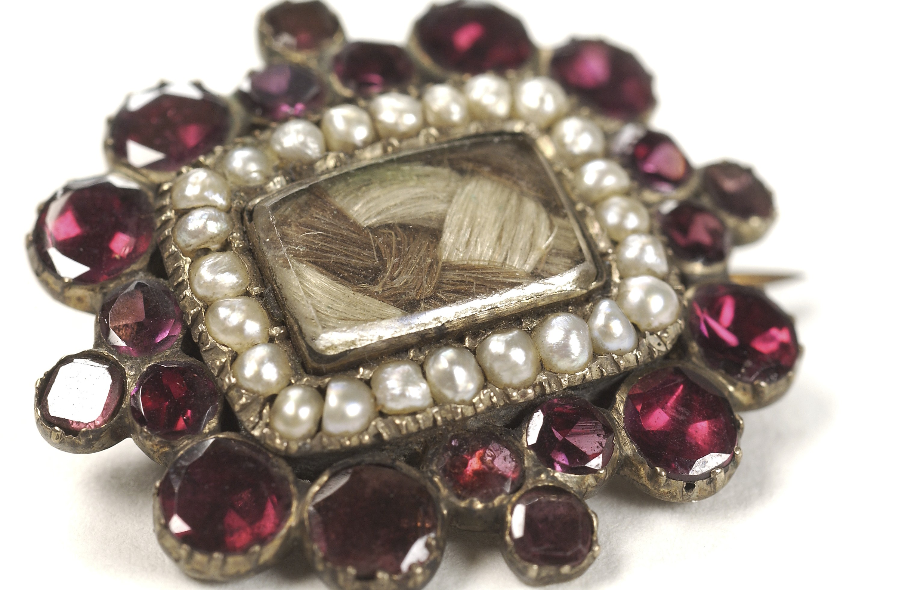 Mourning brooch containing the hair of a deceased relative. Wellcome Images Keywords: Victorian; Death; Jewellery; British